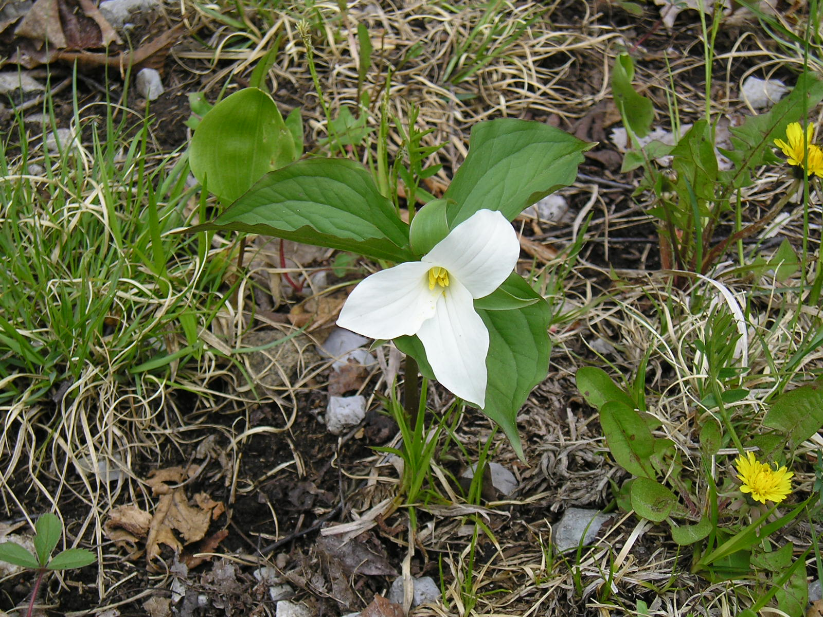 Trillium grandiflorum, taken in Haliburton, Ontario.